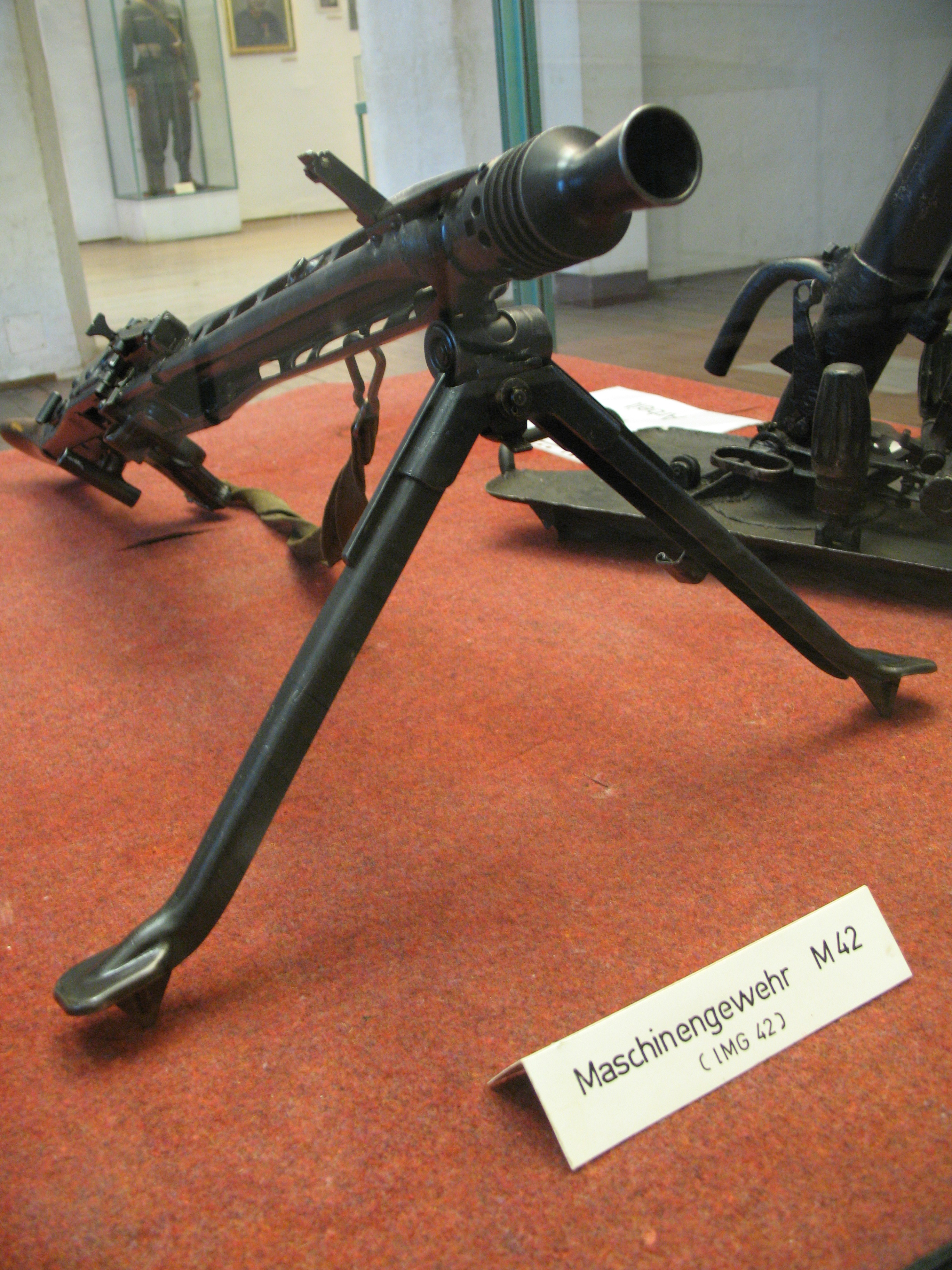 Machinerifle; High Fortress, Salzburg, Austria